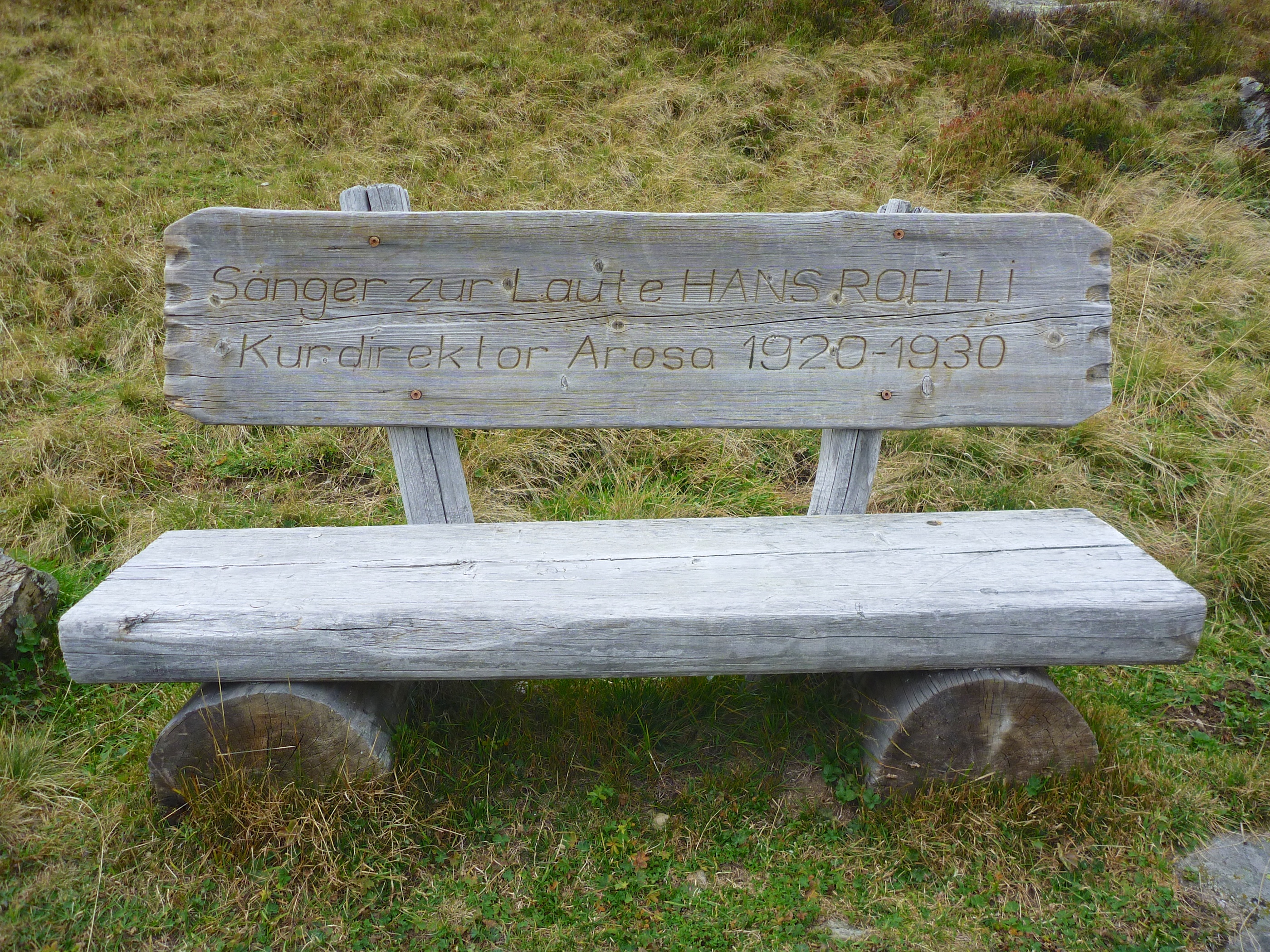 wooden bench in memory of composer Hans Roelli, Arosa, Switzerland